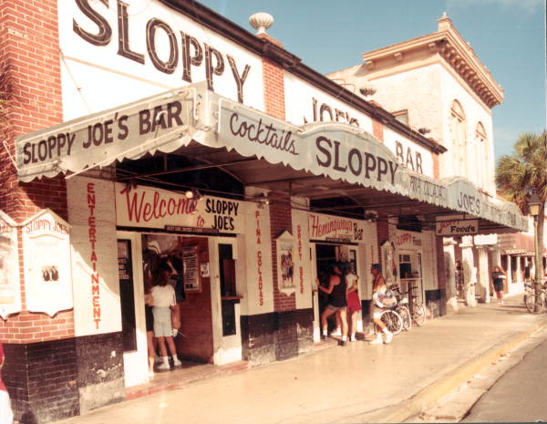 Local call number: DM3526 Title: Sloppy Joe's Bar at 201 Duval Street - Key West, Florida General note: Sloppy Joe's Bar, located at 201 Duval Street in Key West, Florida, opened in 1933. The bar, which lies within the Key West Historic District, was added to the National Register of Historic Places in 2006. Series Title: Florida Memory: Dale M. McDonald Collection Repository: State Library and Archives of Florida, 500 S. Bronough St., Tallahassee, FL 32399-0250 USA. Contact: 850.245.6700. Persistent URL: Physical description: 1 photonegative - col. - 60 mm.